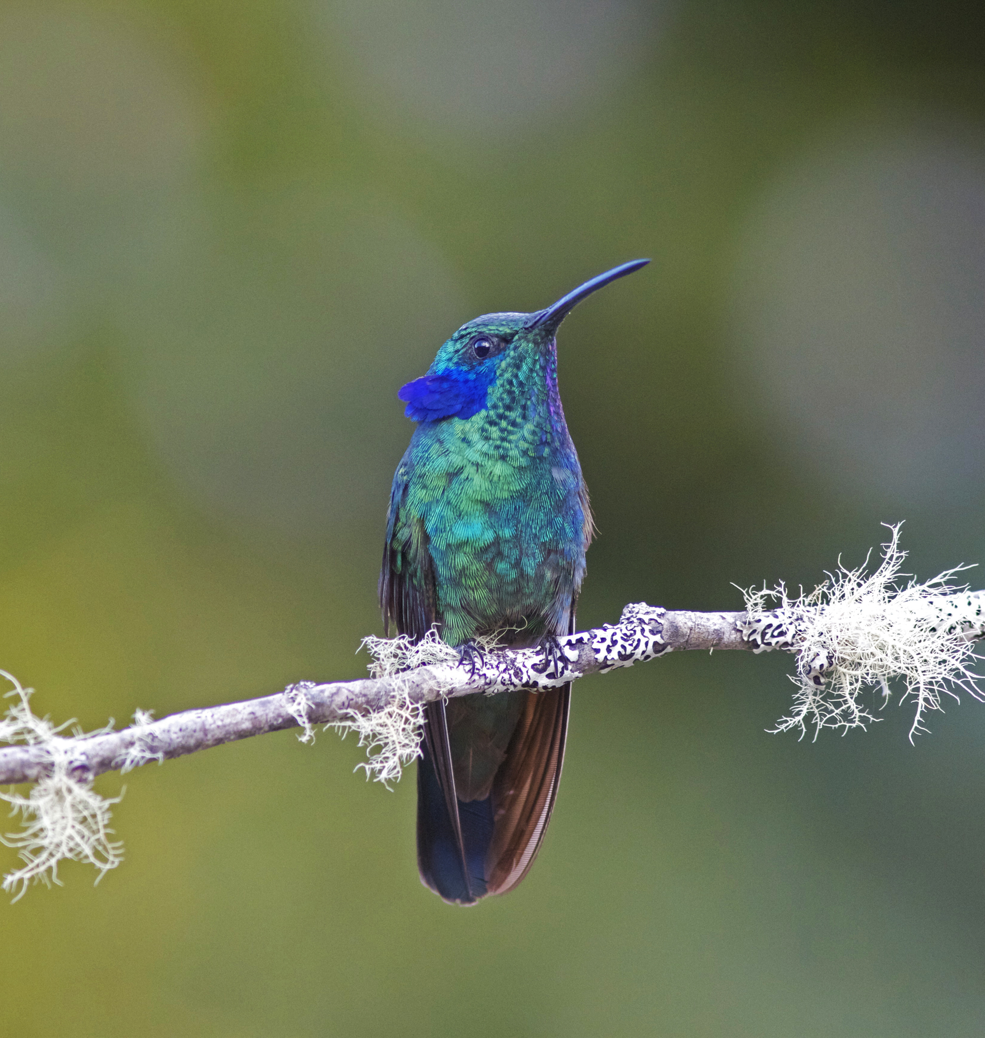 Green Violetear photo taken at Savegre Mountain Hotel, Costa Rica.